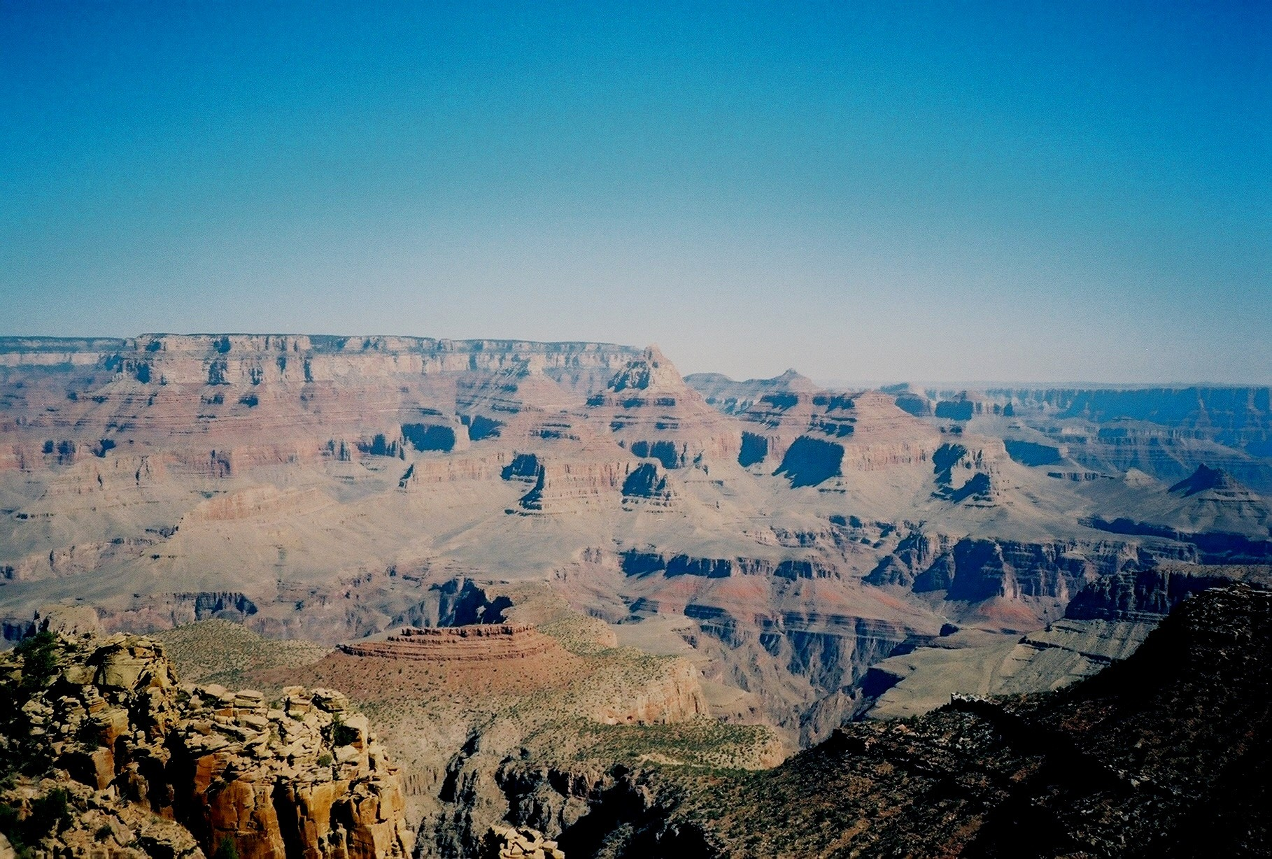 Horseshoe Mesa, the terminus of the Grandview Trail. Landforms south of Cape Royal (Kaibab Plateau- Walhalla Plateau; flat-top of Wotans Throne, hides Cape Royal behind-(note thicker geology units, because of 1.5 mi closer); rest of plateau to right. Vishnu Creek -(from Cape Royal)-(canyon, outlet), photo-left; unnamed creek (wash), center; Asbestos Canyon, photo right, surrounded by landforms. (Freya Castle is a lower elevation peak, right of Wotans Throne, and left of the higher Vishnu Temple prominence. Freya is beyond Wotans Throne, and only 0.8-mi from Cape Royal. Vishnu Creek west side Wotans Throne — Hall Butte — Vishnu Creek east side — Vishnu Temple Krishna Shrine Newberry Butte Asbestos Canyon west side Vishnu Temple Krishna Shrine Newberry Butte Asbestos Canyon east side Vishnu Temple Rama Shrine Sheba Temple